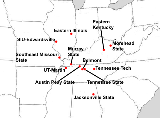 Locations of Ohio Valley Conference full member institutions. Personal creation in Photoshop; All rights released to the public to do whatever they want with it.